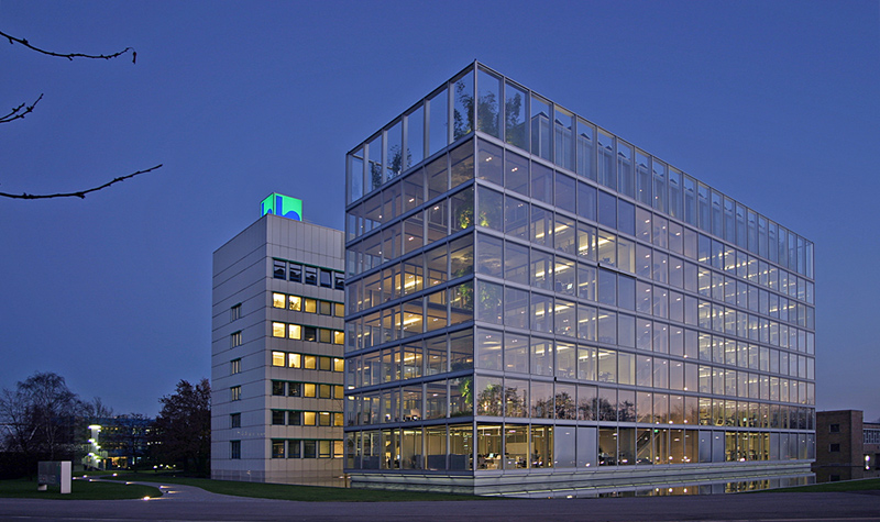 Headquarters of the European-wide water supply company Gelsenwasser AG in Gelsenkirchen. The focus of the new building was completed in the spring of 2004, a fully glazed inside and outside the building Düsseldorf architects Anin - Jeromin - Fitildis.